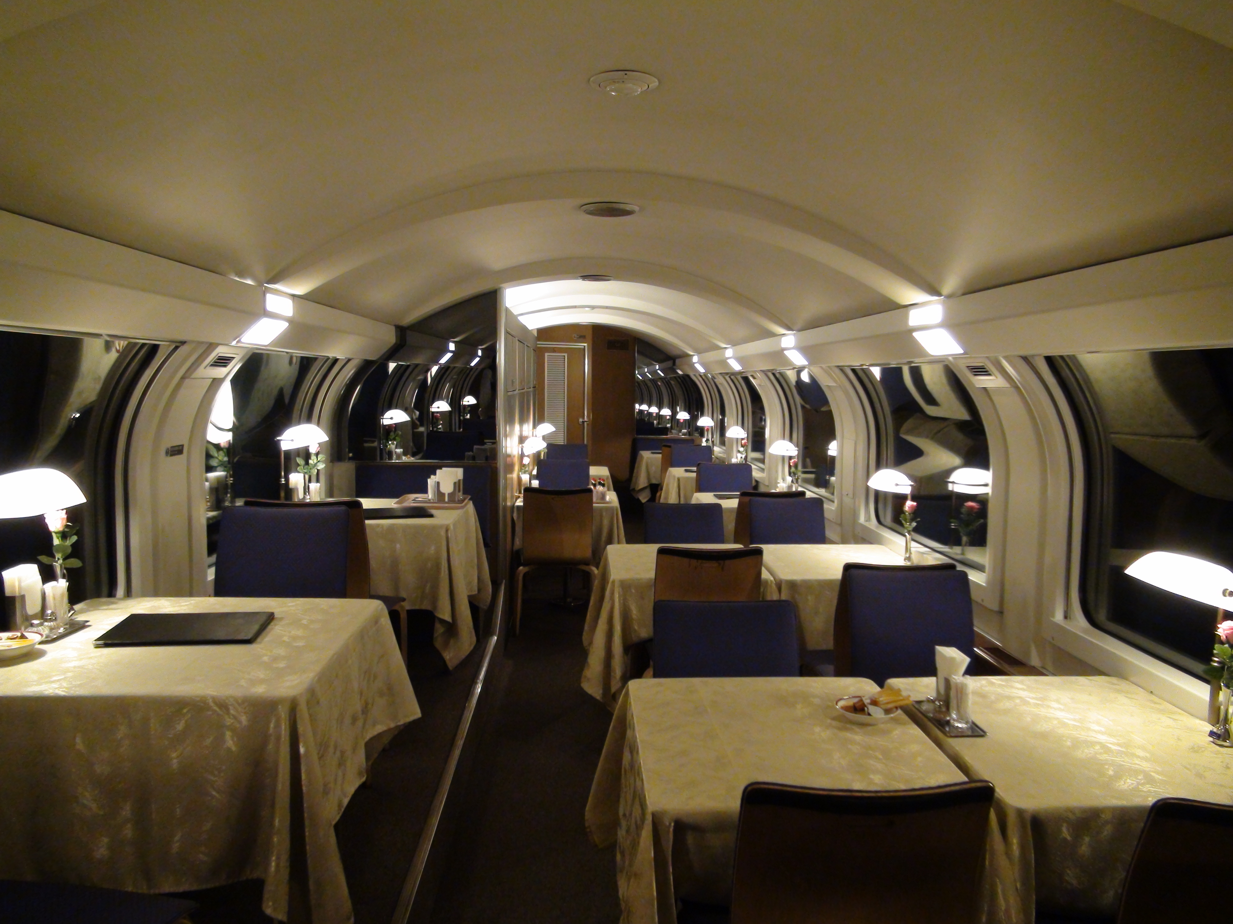 Cassiopeia train dining car